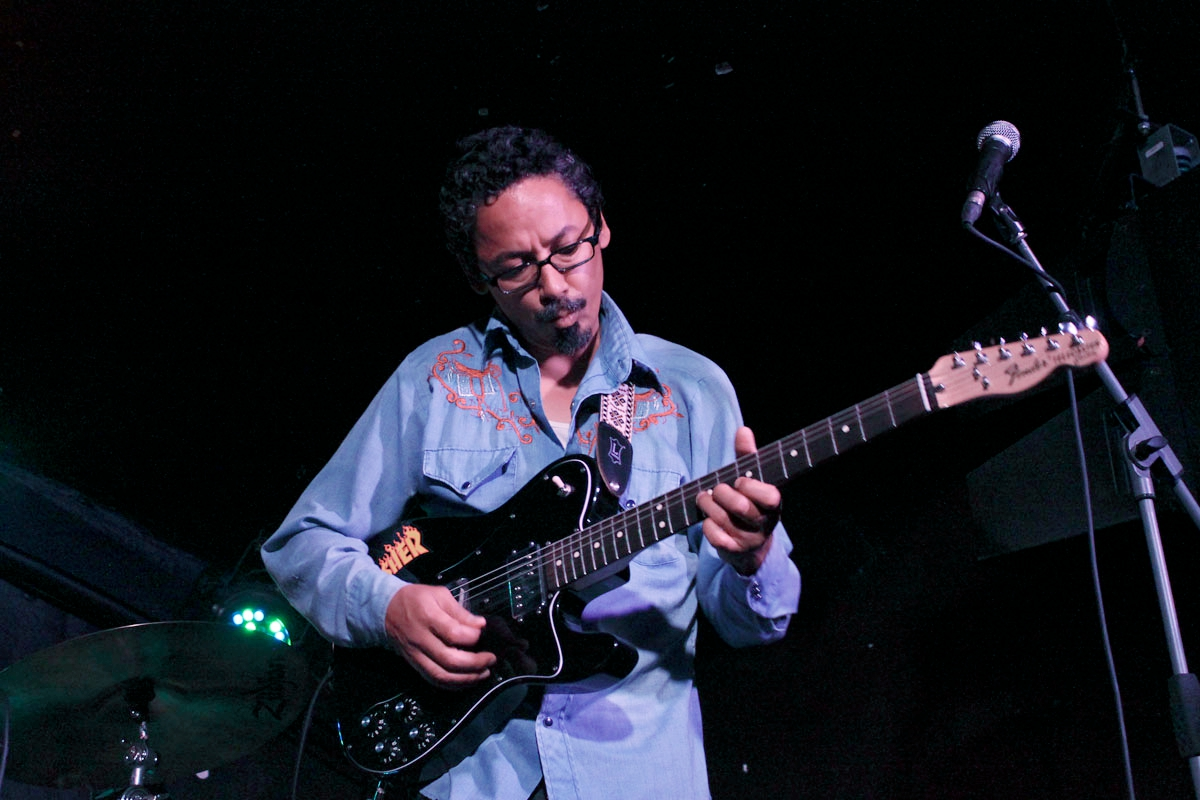 Sidecar Factory | 28.04.2014